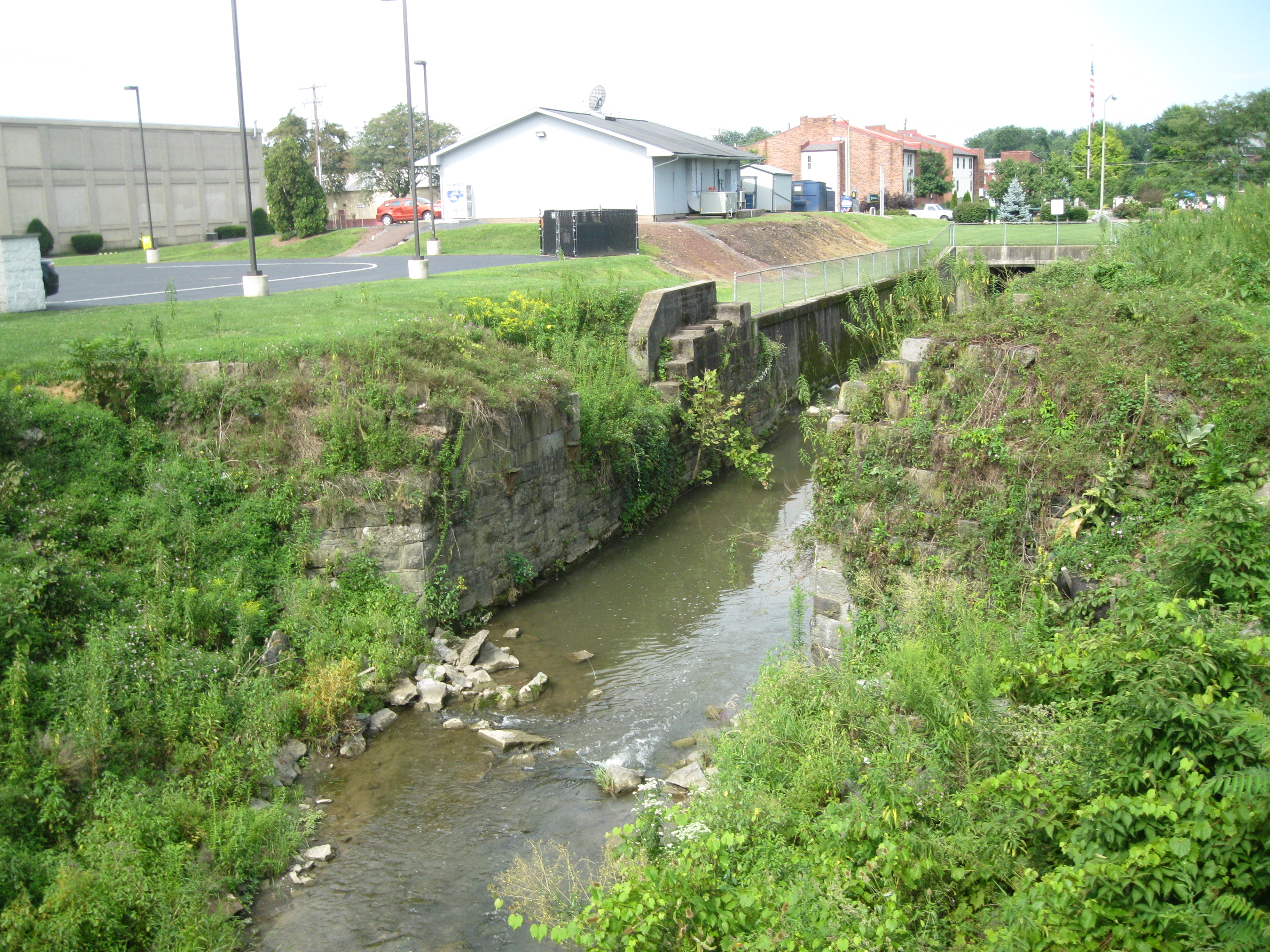 Ruins of the Limestone Run Aqueduct which carried the Pennsylvania Canal over Limestone Run in Milton, Northumberland County, Pennsylvania, USA.